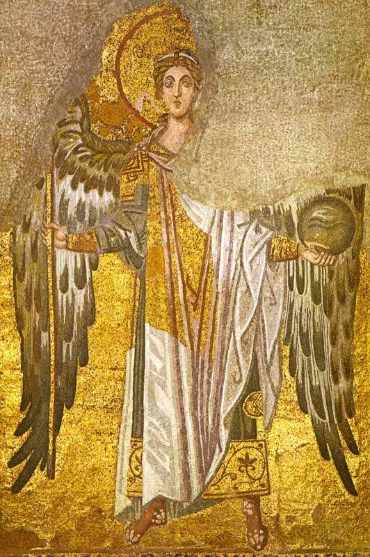 Angel Gabriel, mosaic in the Hagia Sophia.